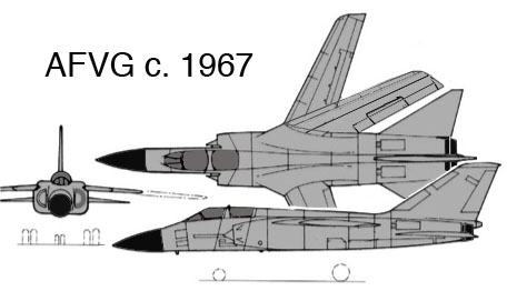 Artist's sketch of AFVG (Anglo-French Variable-Geometry) strike fighter concept, a predecssor to the Panavia Tornado.